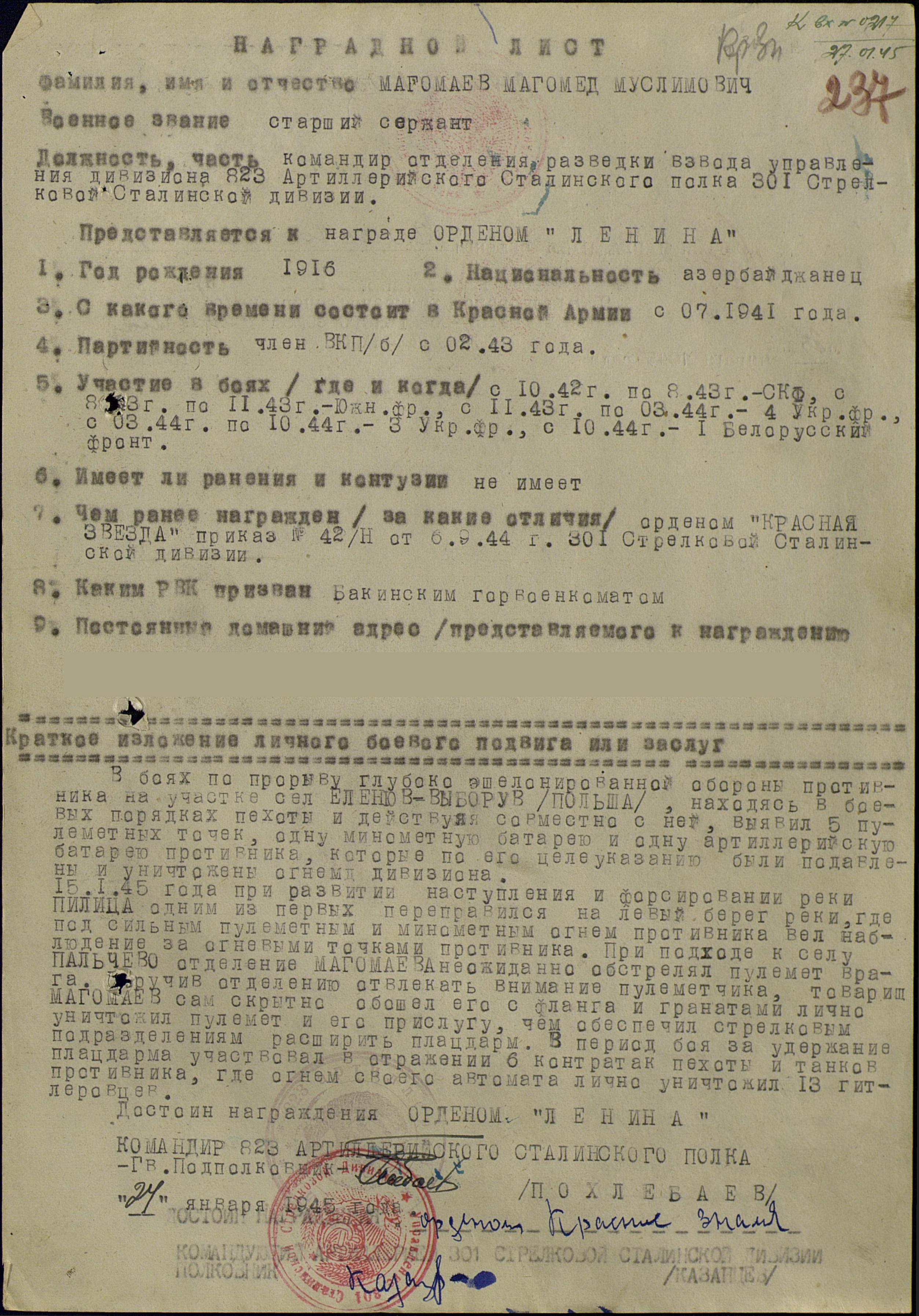 Наградной лист Магомаева